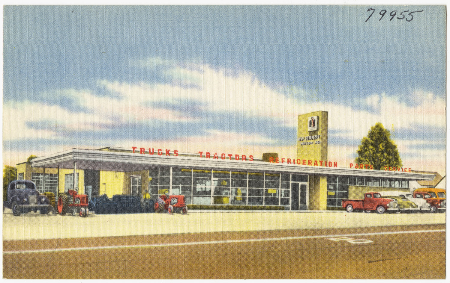 File name: 06_10_020569 Title: N. P. Hurst Motor Co. Created/Published: Date issued: 1930-1945 (approximate) Physical description: 1 print (postcard) : linen texture, color ; 3 1/2 x 5 1/2 in. Genre: Postcards Subjects: Commercial facilities Notes: Title from item. Collection: The Tichnor Brothers Collection Location: Boston Public Library, Print Department Rights: No known restrictions